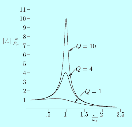 Frecuency reponse of a dampened harmonic oscillator. 2006